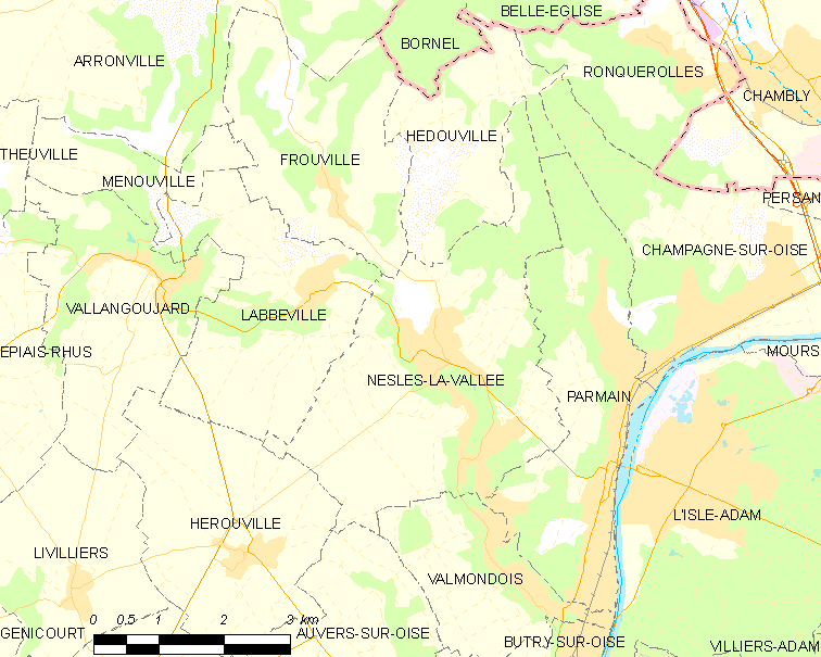 Map of French municipality Nesles-la-Vallée